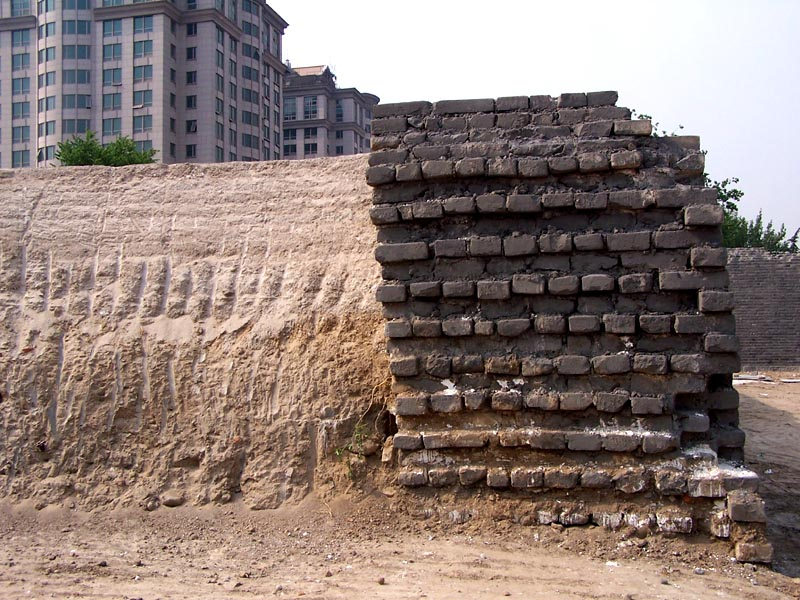 ruins of Beijing City Wall near the Southeast Corner Tower